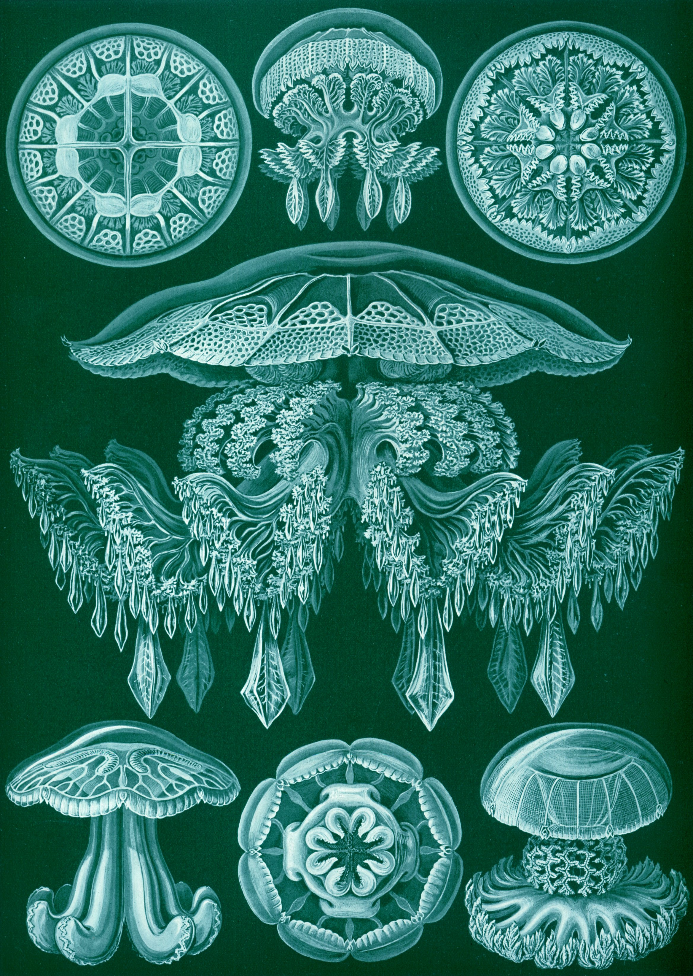 (top center): Pilema Giltschii (Haeckel) = Rhizostoma sp.?, medusa from the side (top left): Pilema Giltschii (Haeckel) = Rhizostoma sp.?, medusa from above (top right): Pilema Giltschii (Haeckel) = Rhizostoma sp.?, medusa from below (center): Rhopilema Frida (Haeckel) = Rhopilema rhopalophorum Haeckel, 1880, medusa from the side (bottom right): Brachiolophus collaris (Haeckel) = Stomolophus meleagris Agassiz, 1862, young medusa from the side (bottom left): Cannorrhiza connexa (Haeckel) = Rhizostomeae sp., archirhiza-stage young medusa from the side (bottom center): Cannorrhiza connexa (Haeckel) = Rhizostomeae sp., archirhiza-stage young medusa from below